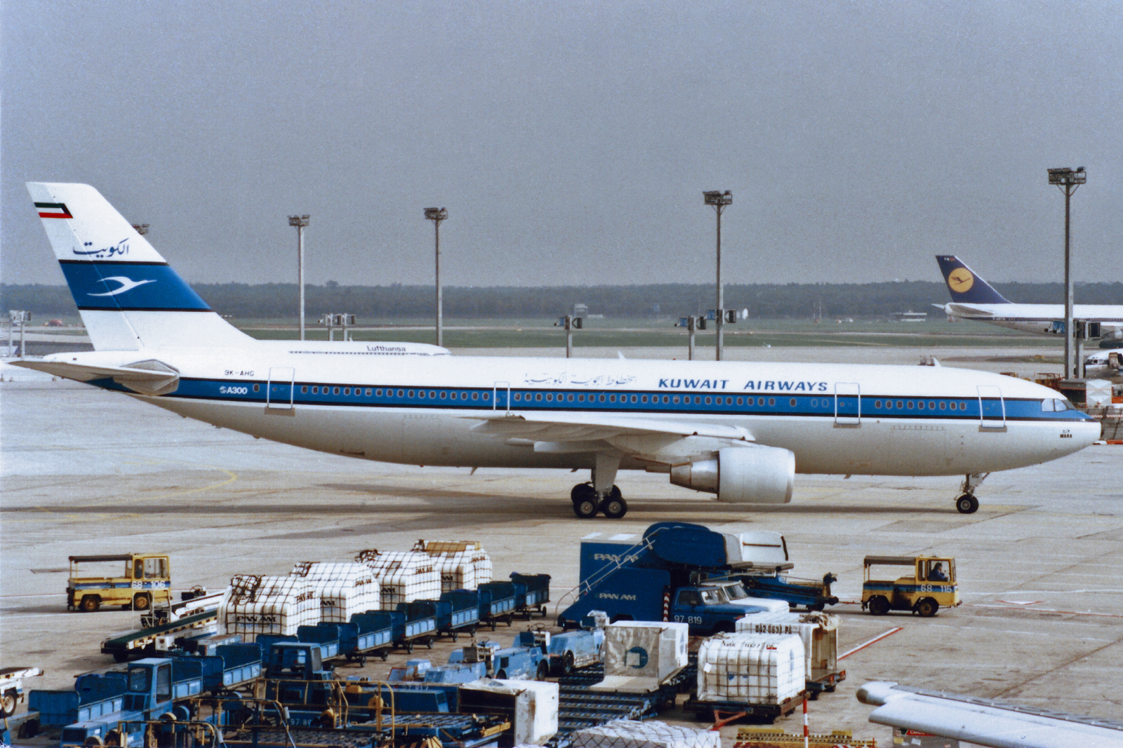 Frankfurt am Main (Rhein-Main AB) (FRA / EDDF / FRF) Germany 1.1985 On August 2, 1990 Iraqi forces occupied Kuwait. They seized ten commercial aircraft belonging to Kuwait Airways: two Boeing 767s, three Airbus A.300, and five Airbus A.310 planes. On 17 September 1990, two Boeing 767s (9K-AIB, 9K-AIC) were at Basra. Both planes were flown from Basra to Mosul on 17 November 1990. Airbus A.300's 9K-AHF and 9K-AHG were also flown to Mosul. The UN Security Council's deadline for Iraq's withdrawal from Kuwait expired at midnight on 15 January 1991. Military action by coalition air forces began twenty-four hours later. The airfield at Mosul suffered several attacks from the air.On 15 February 1991 the four Kuwait aircraft were destroyed by coalition bombing.